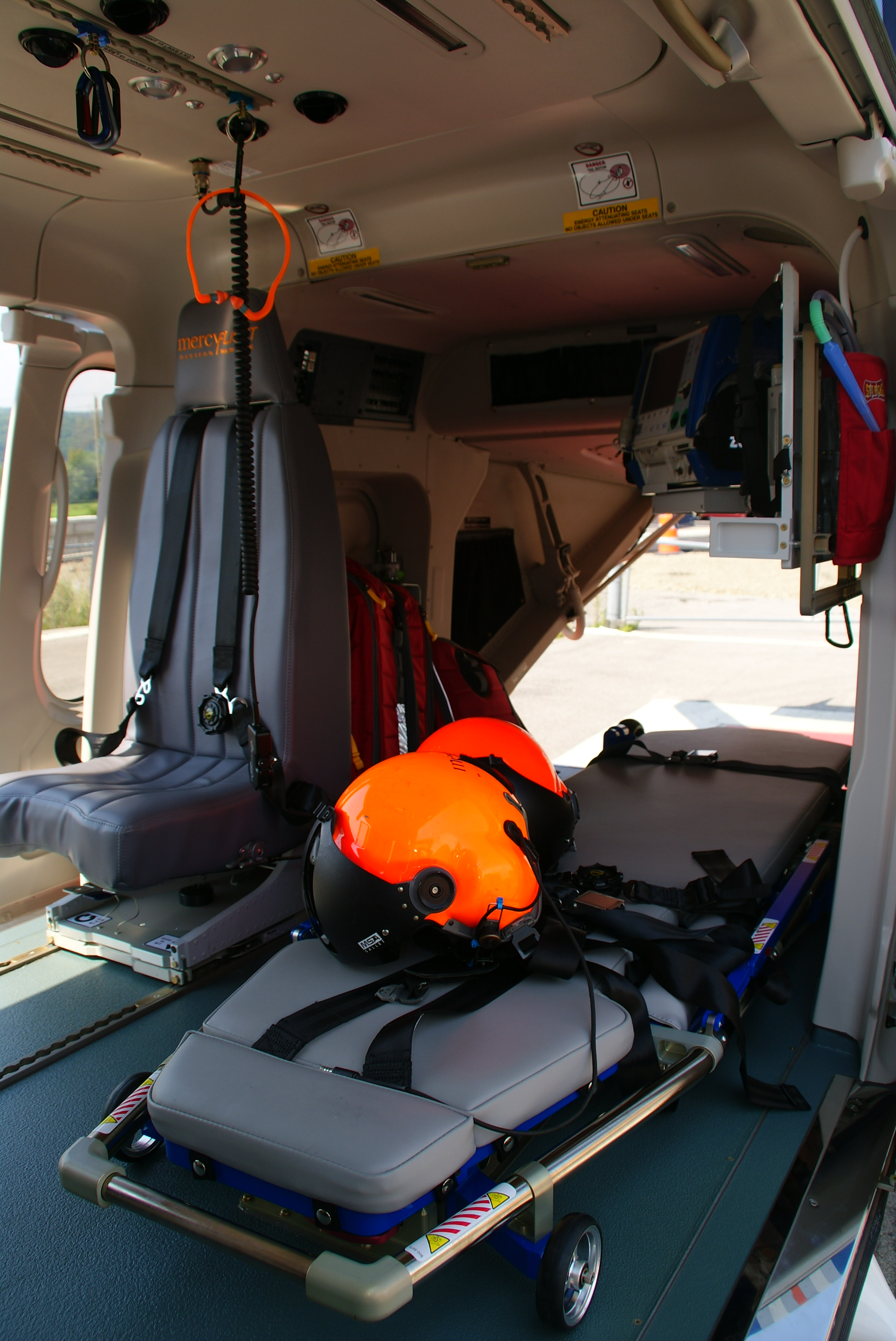 8-19-11 NEW 2010 MERCY FLIGHT 5 AT WCCH 027